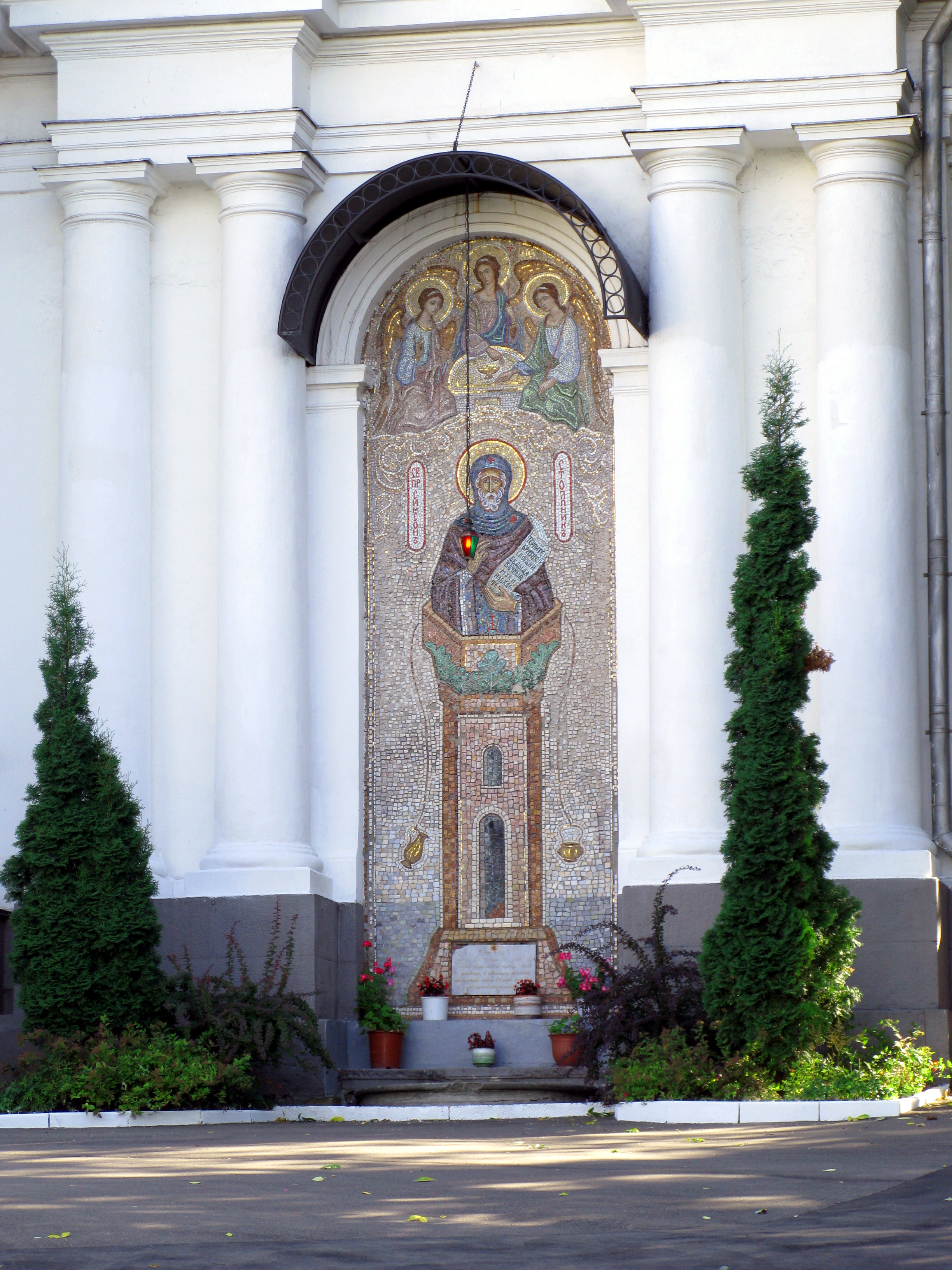 Church of Simeon Stylites by Yauza (Moscow)